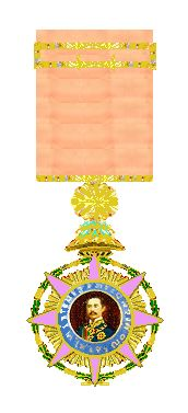 Order of Chula Chom Klao Sixth Class